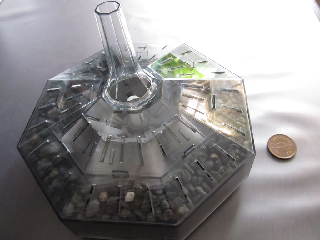 Suisaku filter for aqualium